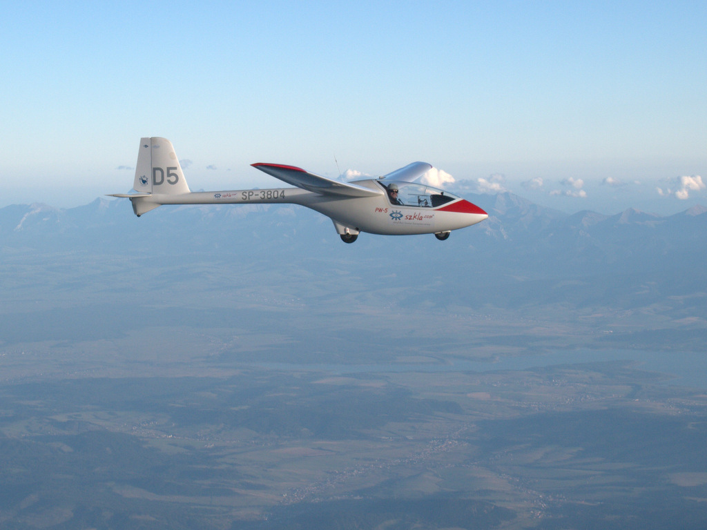 World Class Glider PW-5 in a wave flight